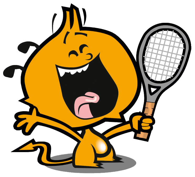 Nelson, titular hero of the Swiss comic book series Nelson, created by Christophe Bertschy.